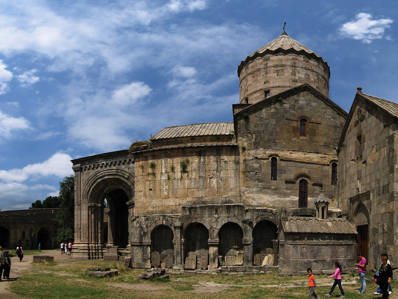 Tatev, funeral chapel of Gregory